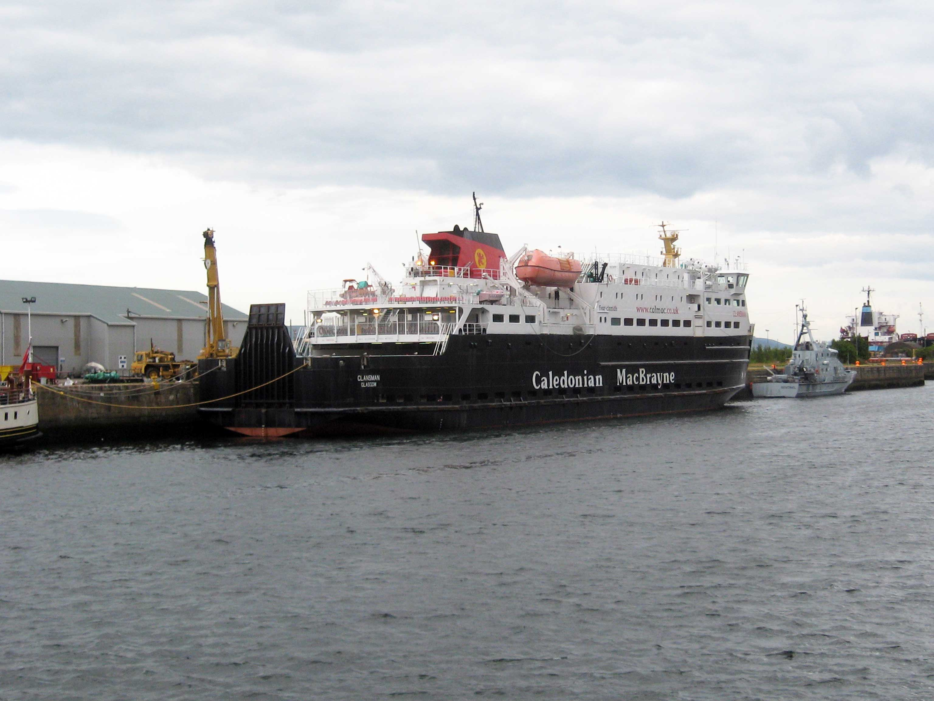 MV Clansman undergoing repairs at the Watt Dock, Greenock, with PS Waverley to the left.